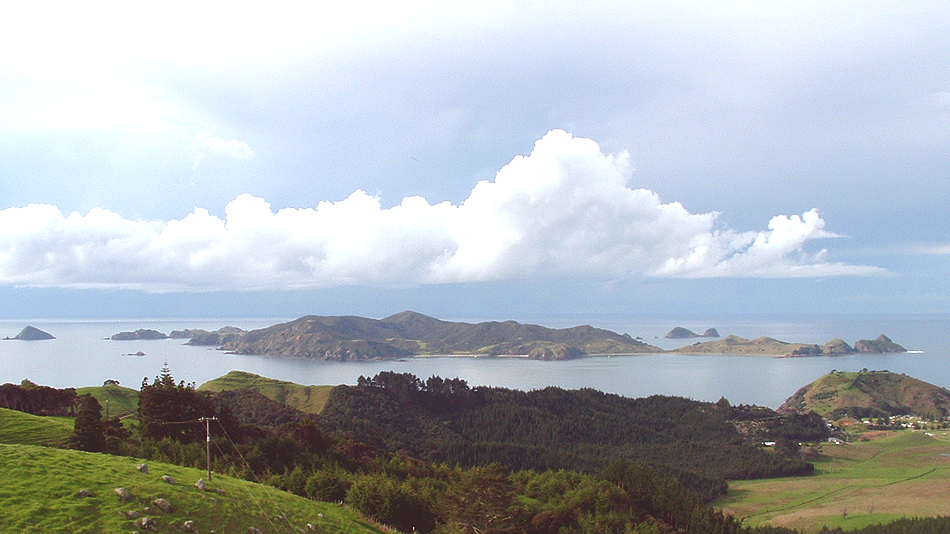 Photo taken by Moriori for Wikipedia and released PD